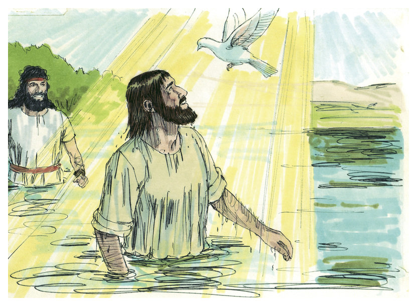 Biblical illustration of Gospel of John Chapter 1